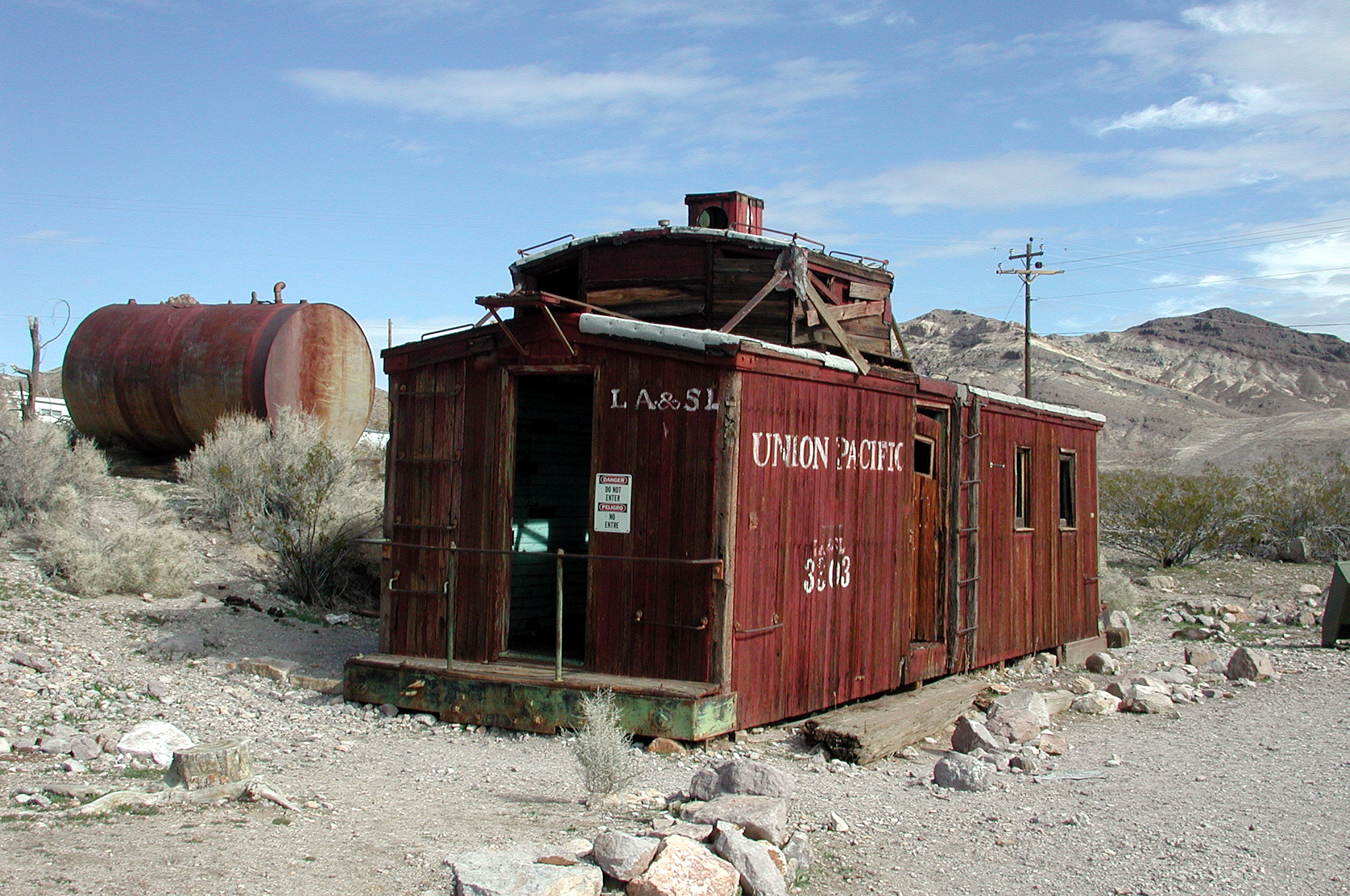 Abandoned caboose and tank in the ghost town of Rhyolite, Nevada, looking east